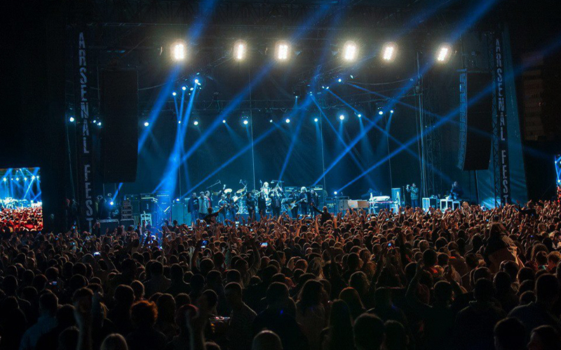 Audience, Main Stage, Arsenal Fest 2016.